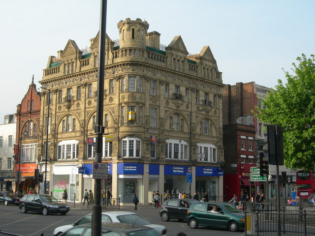 Shops on the Corner of Hollway Road and Seven Sisters Road The corner building is very ornate and would have required much skilled labour to complete.